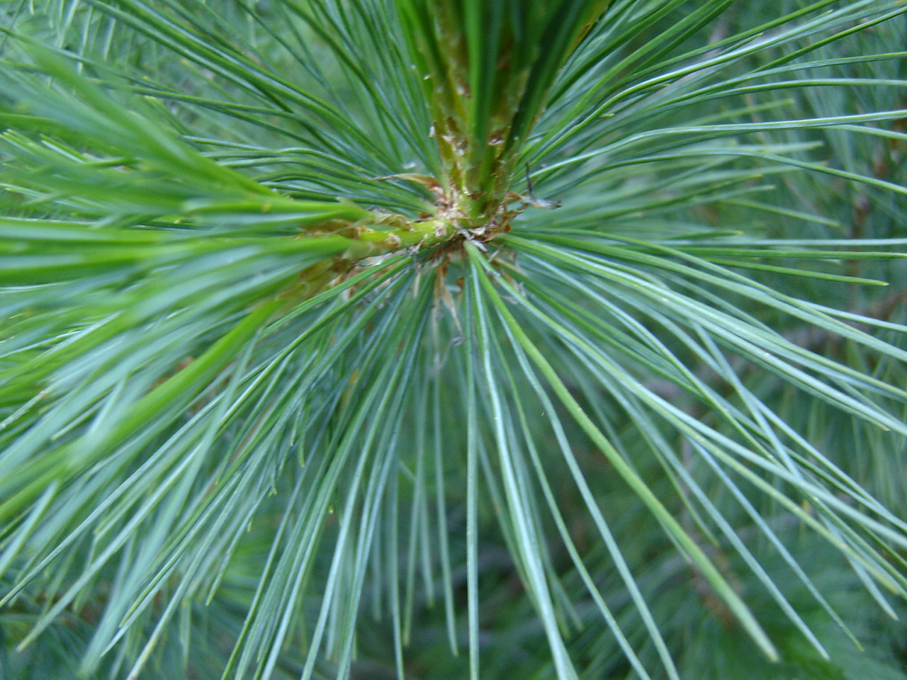 Pinus peuce foliage, Bulgaria